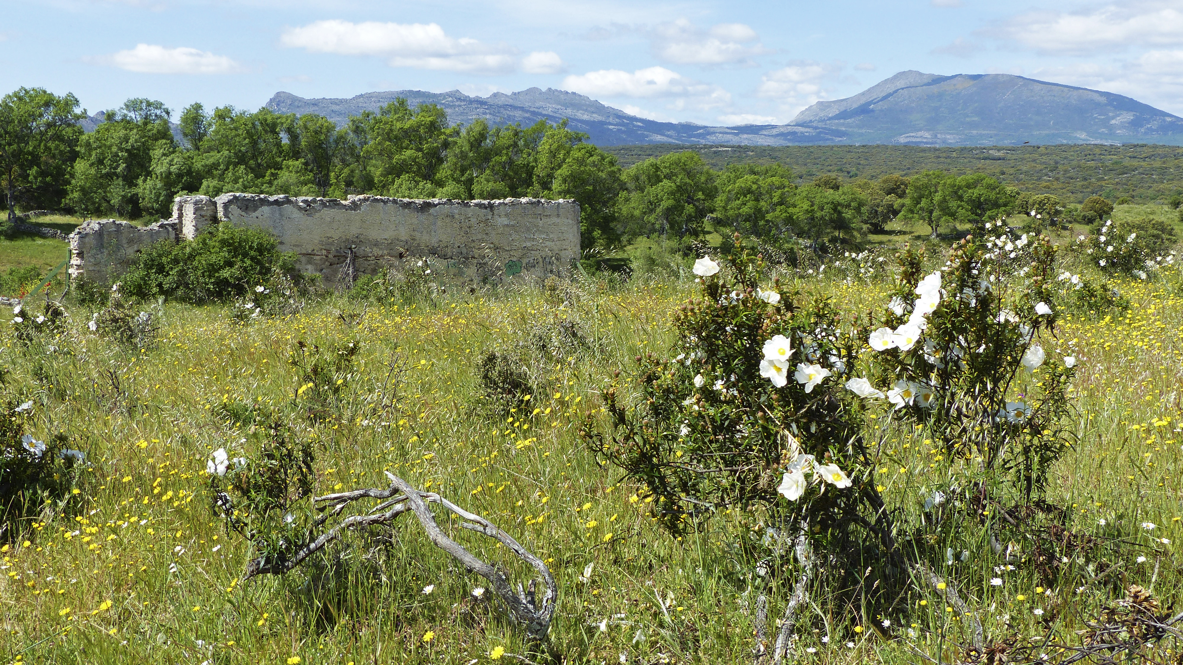 Rear facade of the Ermita del Villar